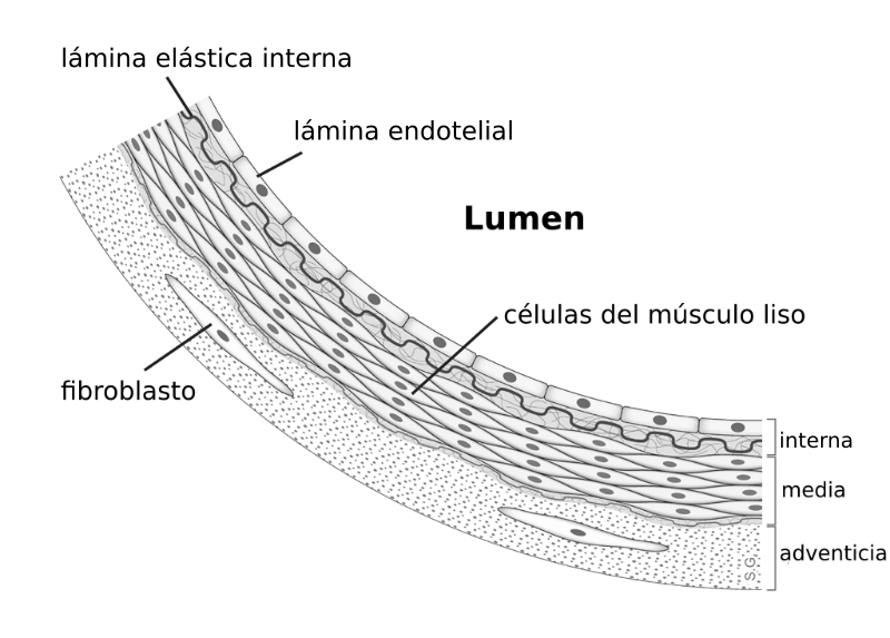 Anatomy overview of a human artery made for PhD in molecular genetics at the University of Maastricht in 2006.